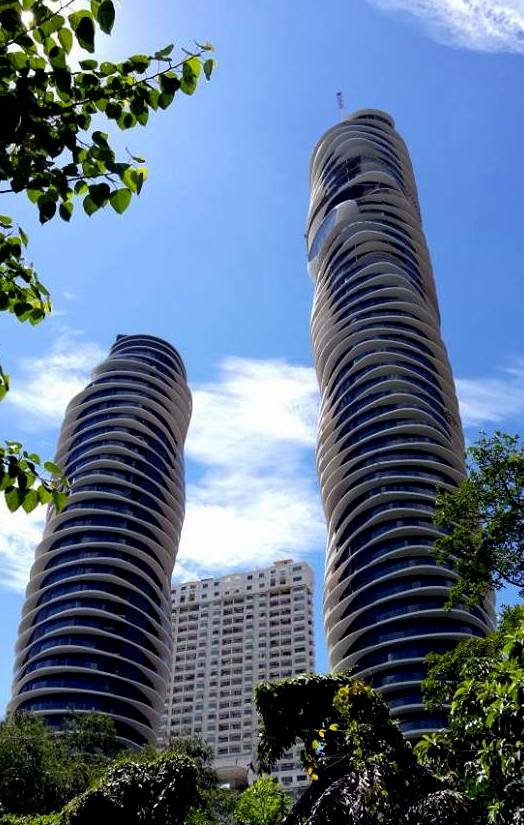 Arte S Towers A and B at Bukit Gambir near the city of George Town in Penang, Malaysia.